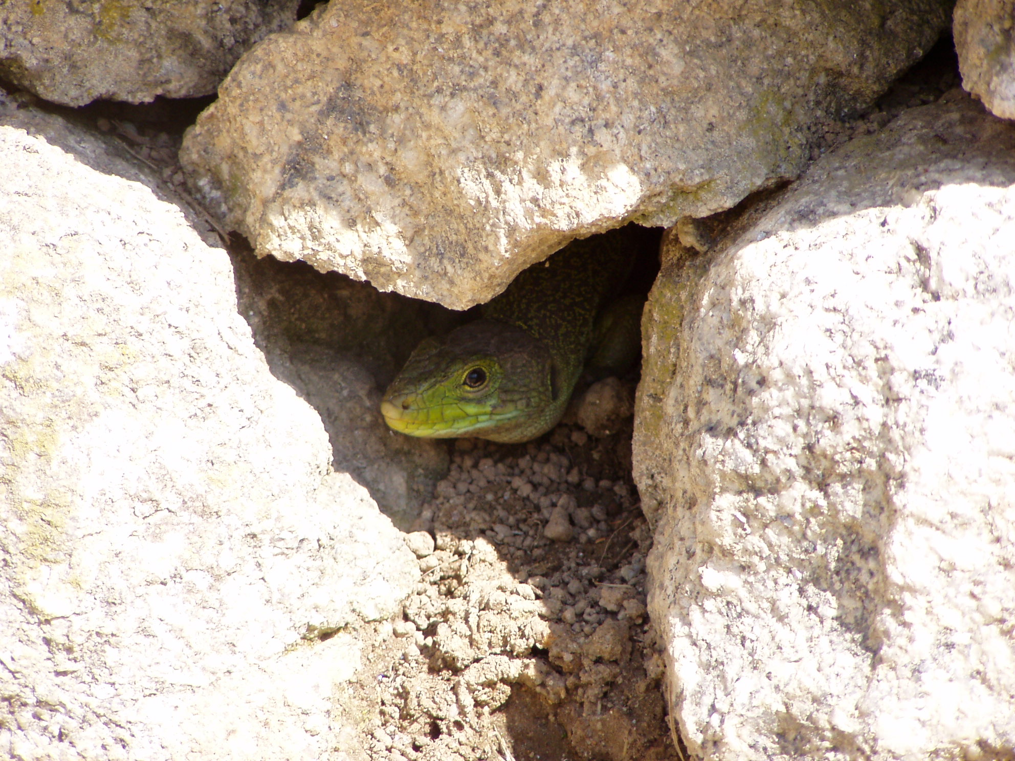 Eyed Wall Lizard